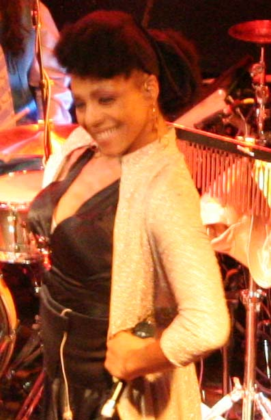 Zap Mama at the 8 x 10 in Baltimore, Maryland.